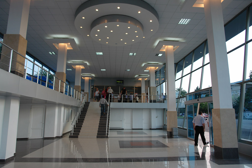 NEW STATIONS GEORGIA 2006 KOBULETI NEW Station